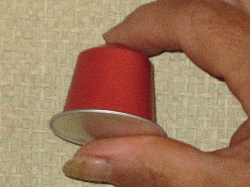 A Nespresso capsule showing its size